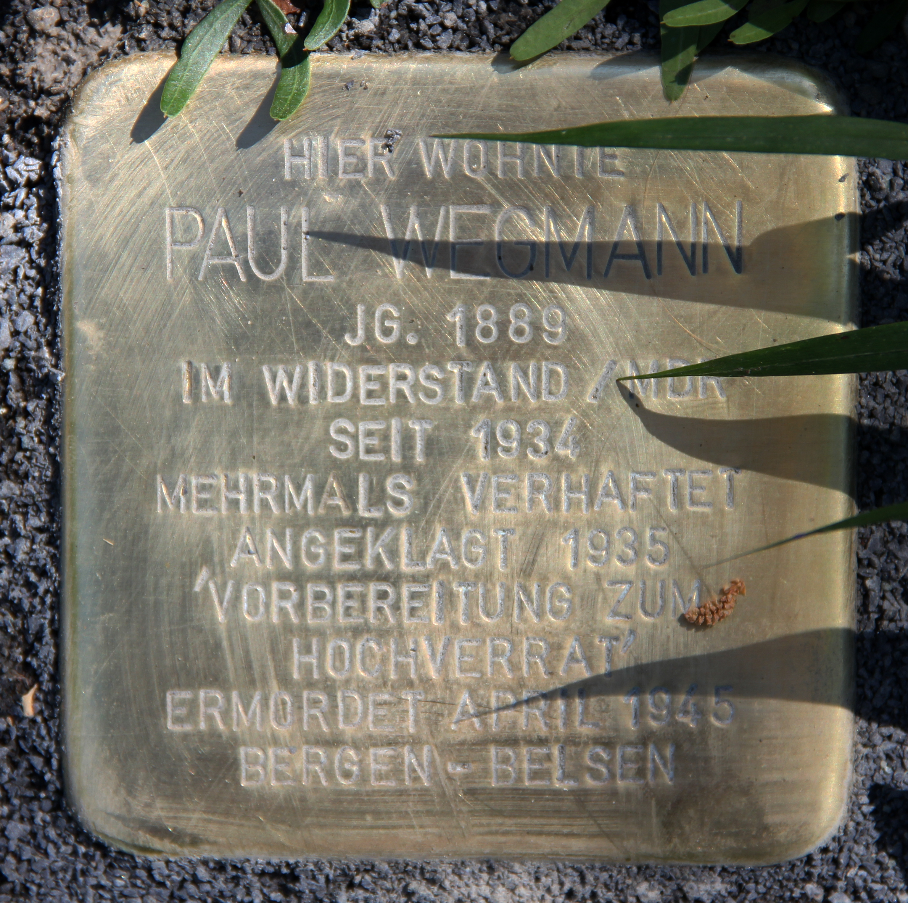 "Stolperstein" (stumbling block), Paul Wegmann, Dahmestraße 69, Berlin-Bohnsdorf, Germany